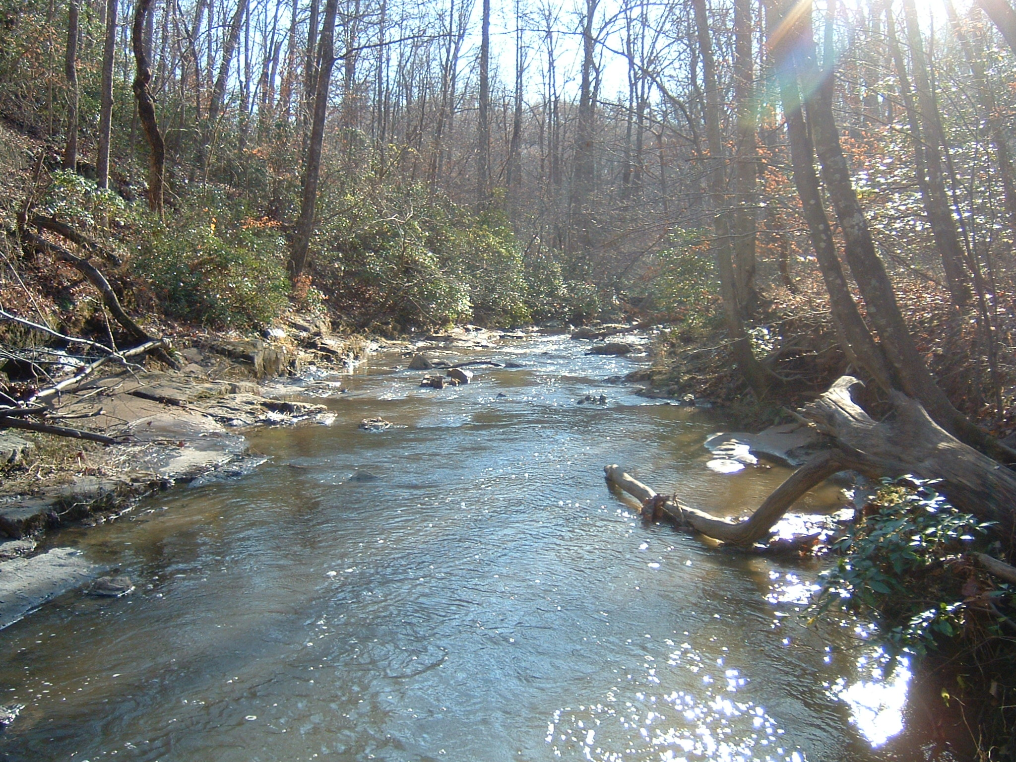 North Fork Quantico Creek in Prince William Forest Park in Prince William County, Virginia, as seen from the North Valley Trail.